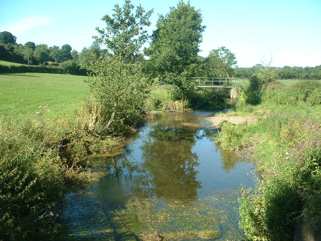 Afon Alun. Near Llanferres. A.k.a. River Alyn